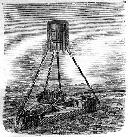 Austrian floating mine